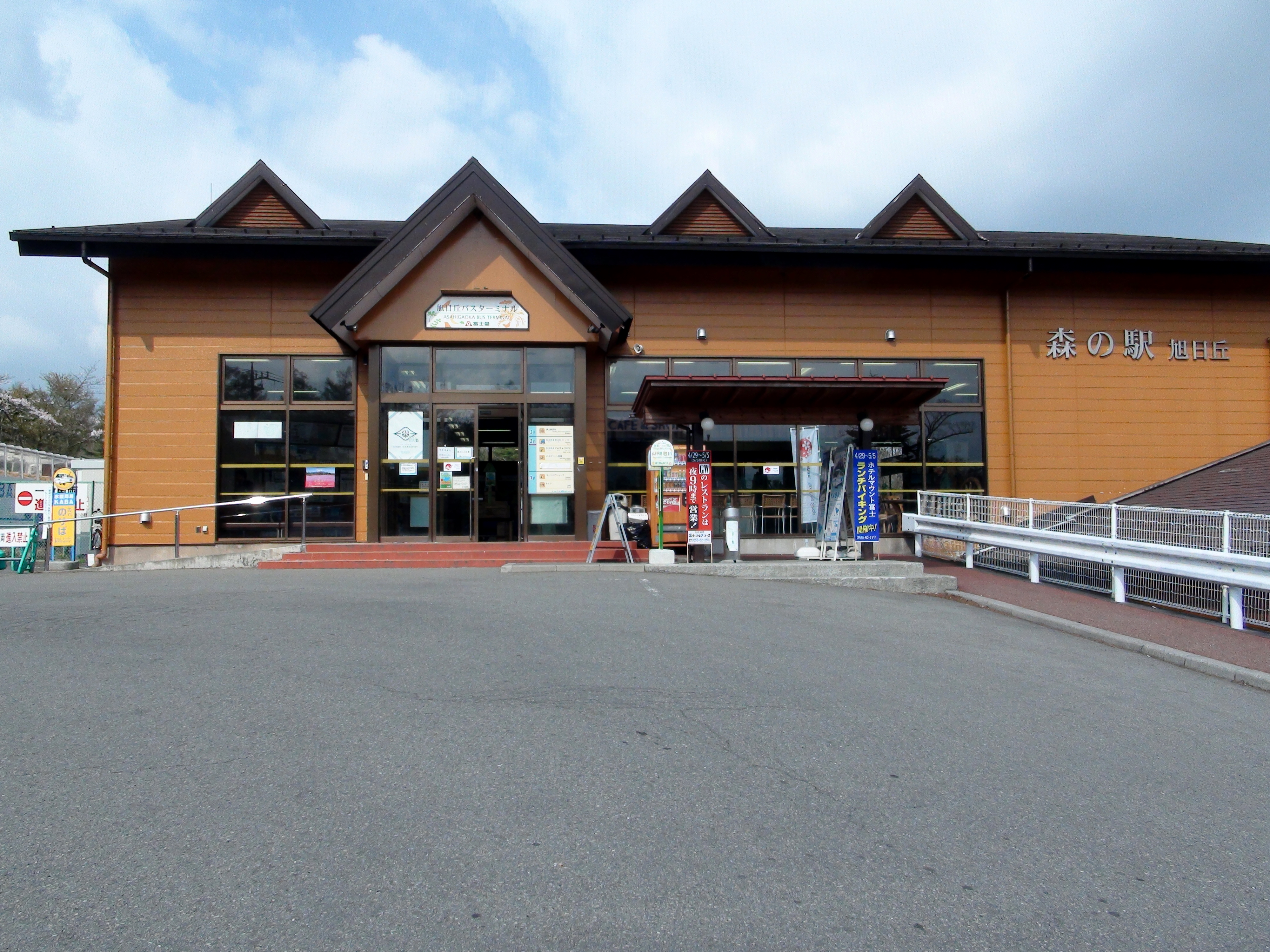 Lake Yamanaka Asahigaoka bus terminal